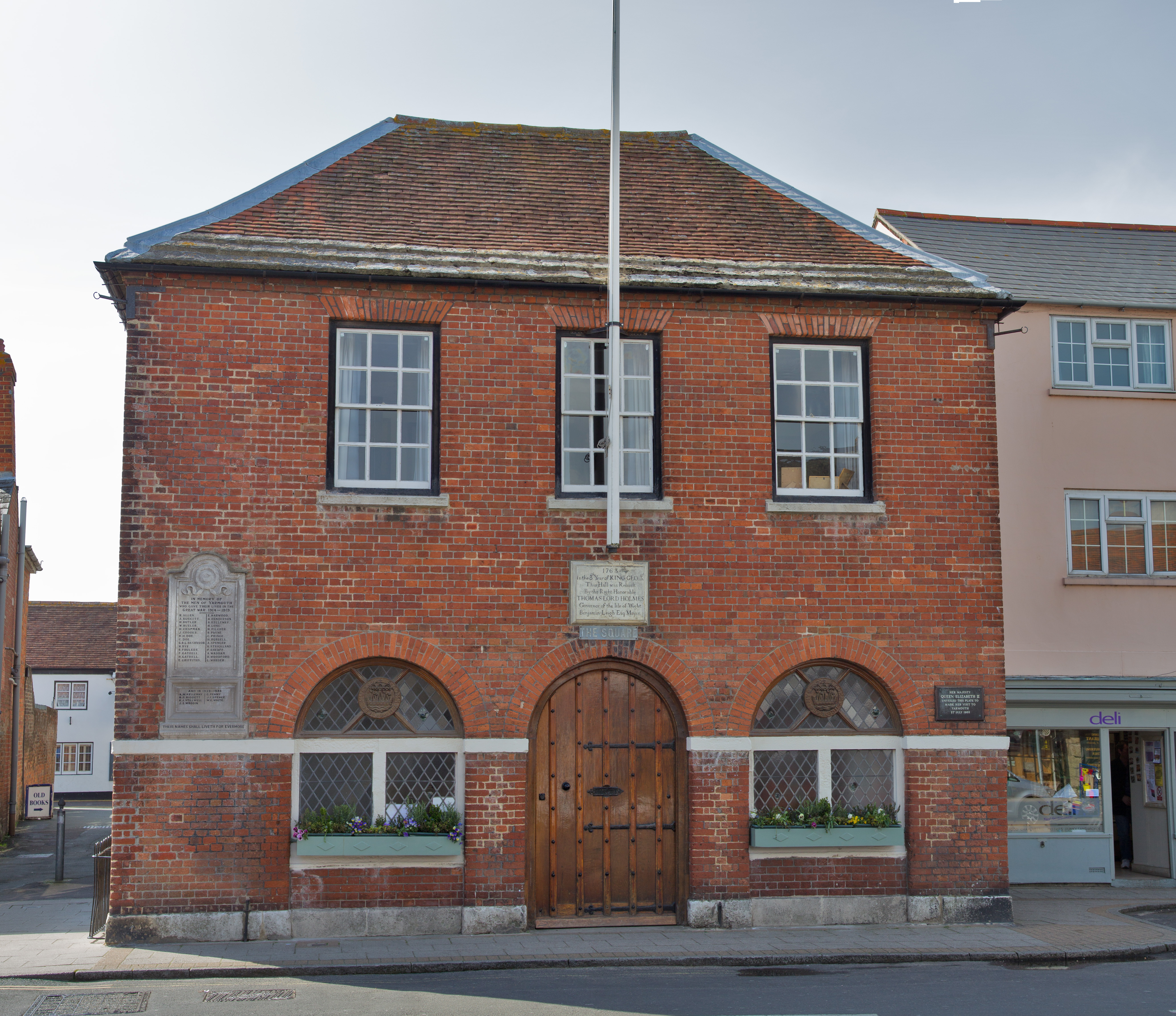 The towan hall of Yarmouth